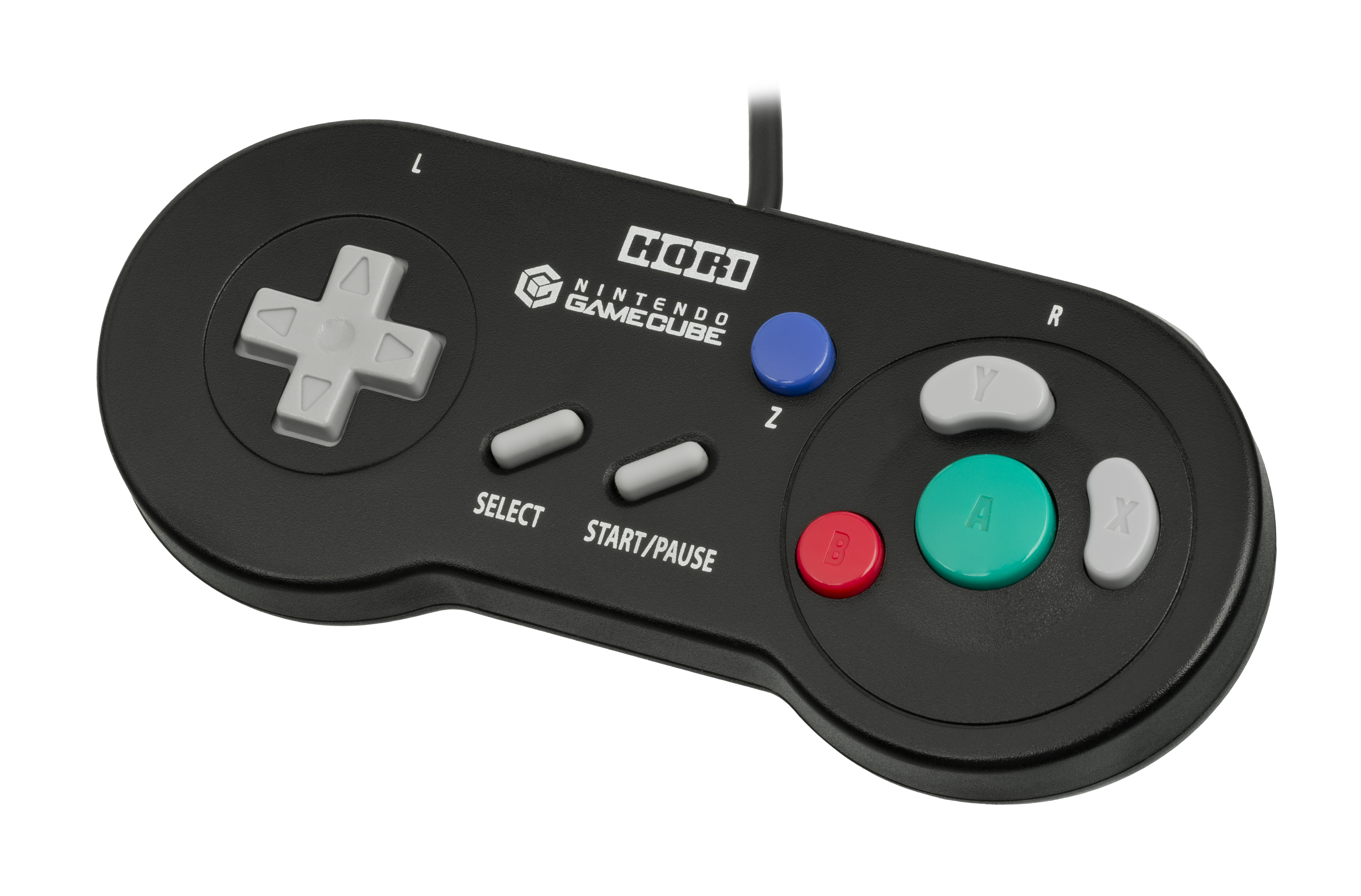 The Super-Famicom-style controller for the Nintendo GameCube video game console, produced by Hori. Primarily meant for use with the Game Boy Player attachment for playing Game Boy and Game Boy Advance games on your television. The controller lacks analog sticks, making it incompatible for playing most regular games on it.